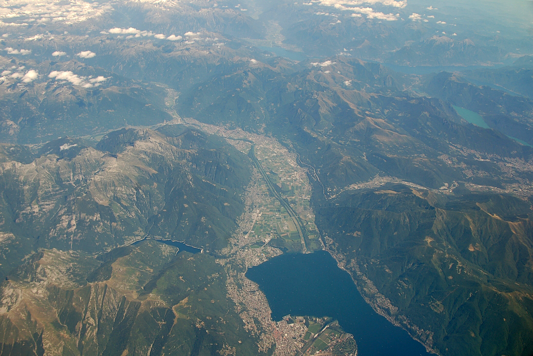 Aerial photographs